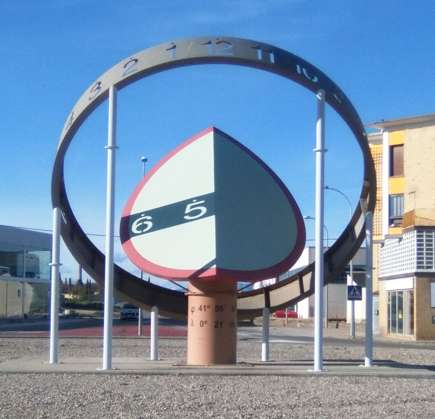 Sundial in Grañén, Spain